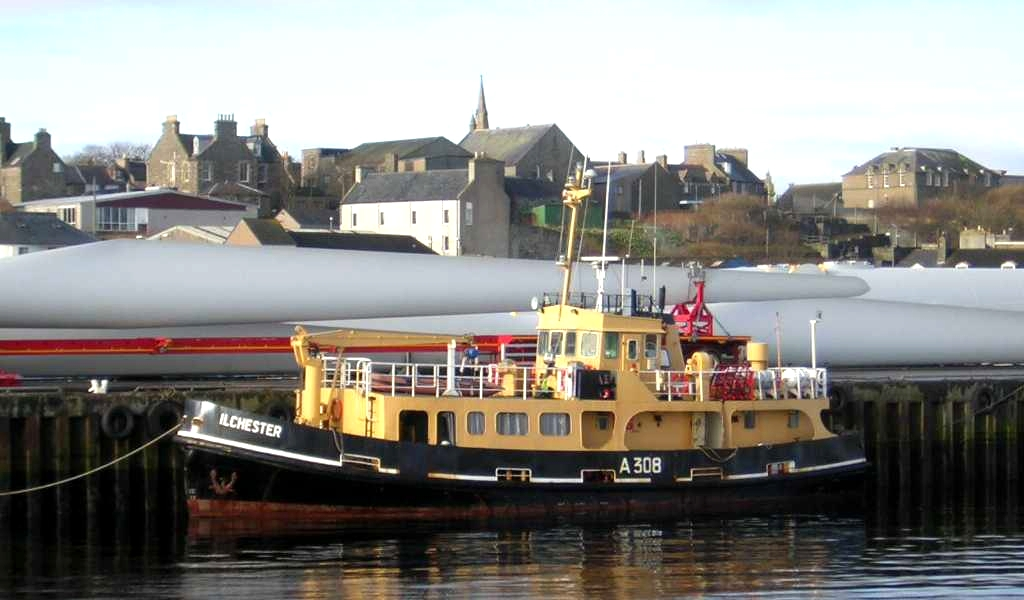 The RMAS Dive Tender Ilchester at Wick, Scotland. The objects in the background are wind turbine blades.